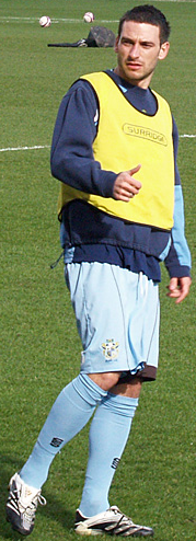 Paul Scott. Image cropped from original at flickr.